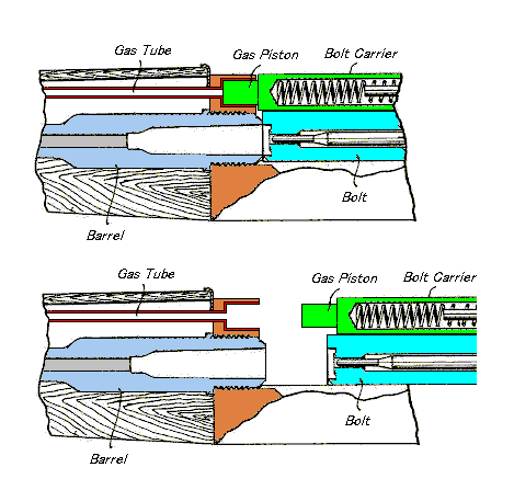 A schematic of the Ag m/42 Ljungman's Direct impingement Gas operation.